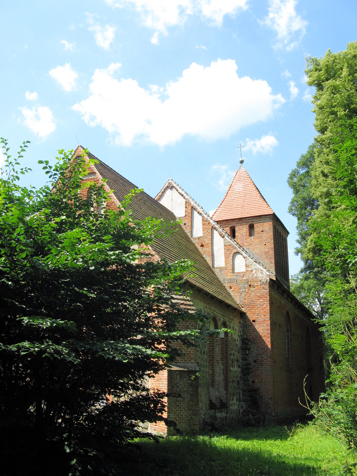 Church in Kirch Kogel, disctrict Güstrow, Mecklenburg-Vorpommern, Germany